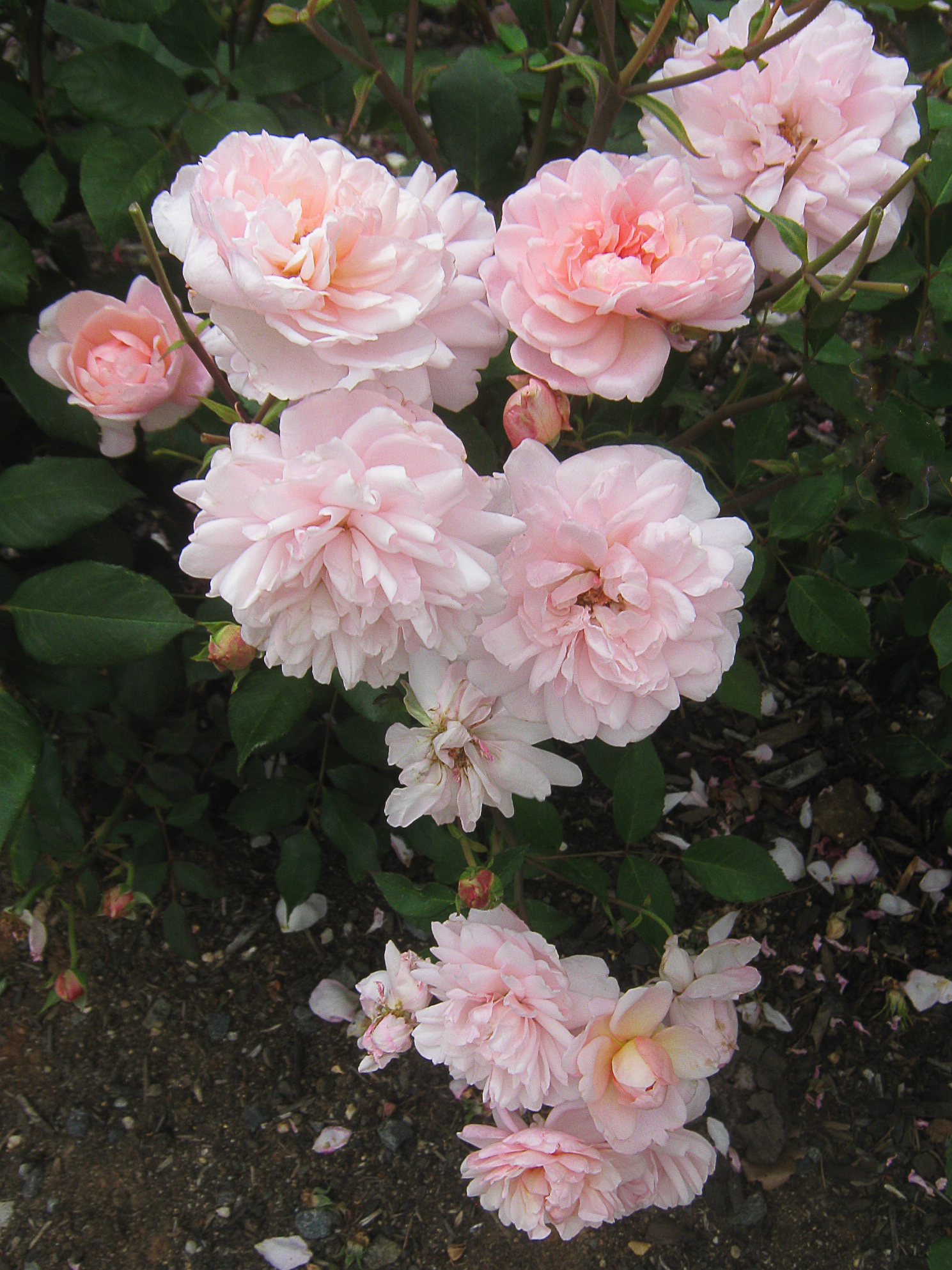 Rose 'Pink Gruss an Aachen', by Kluis 1929; photographed in the Nieuwesteeg Heritage Rose Garden, Maddingley Park, Bacchus Marsh, Victoria